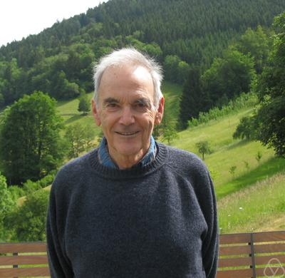 Photo of Harold Widom